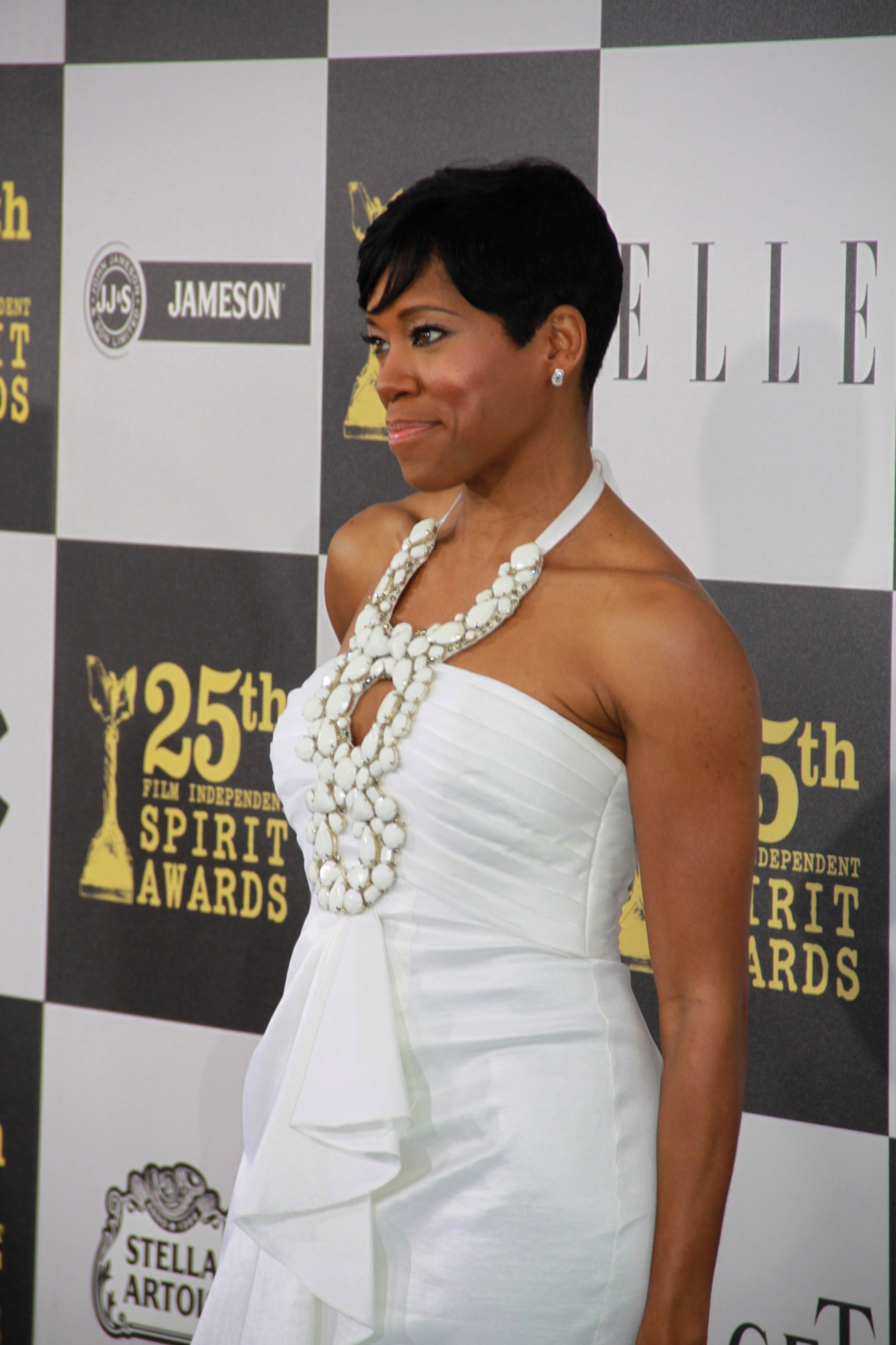 Regina King at the Independent Spirit Awards in Los Angeles on March 5th, 2010.